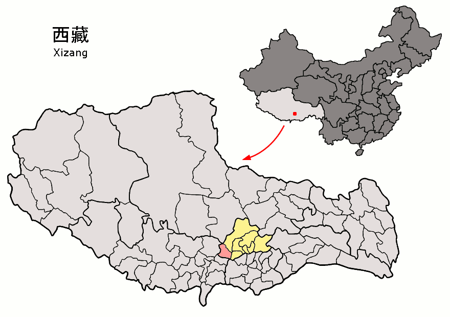 Location of Nyêmo County (pink) and Lhasa prefecture (yellow) within Tibet (Xizang) autonomous region of China